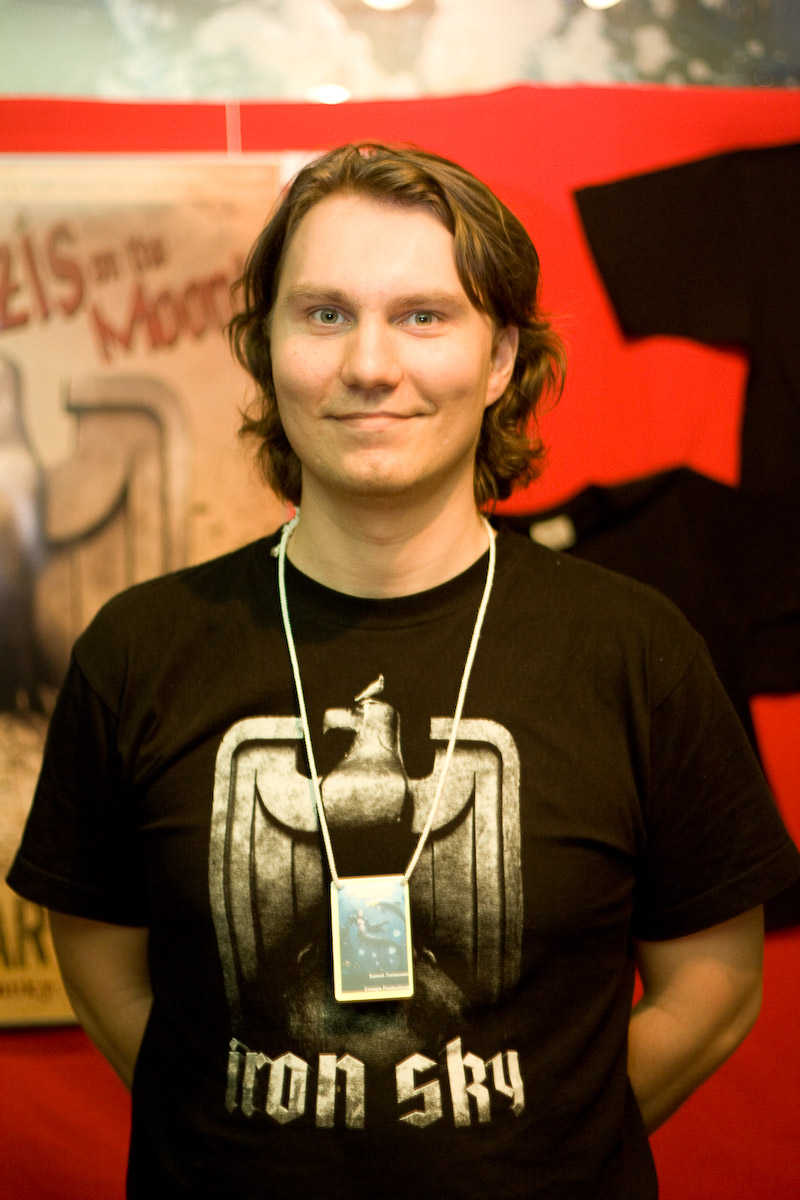 Samuli Torssonen, the producer of the Star Wreck movies, at the Assembly 2008 computer festival.